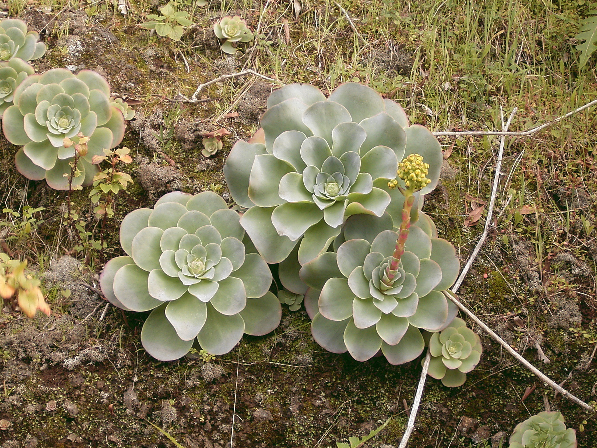 Greenovia diplocycla growing in Garafía, La Palma, Canary Islands